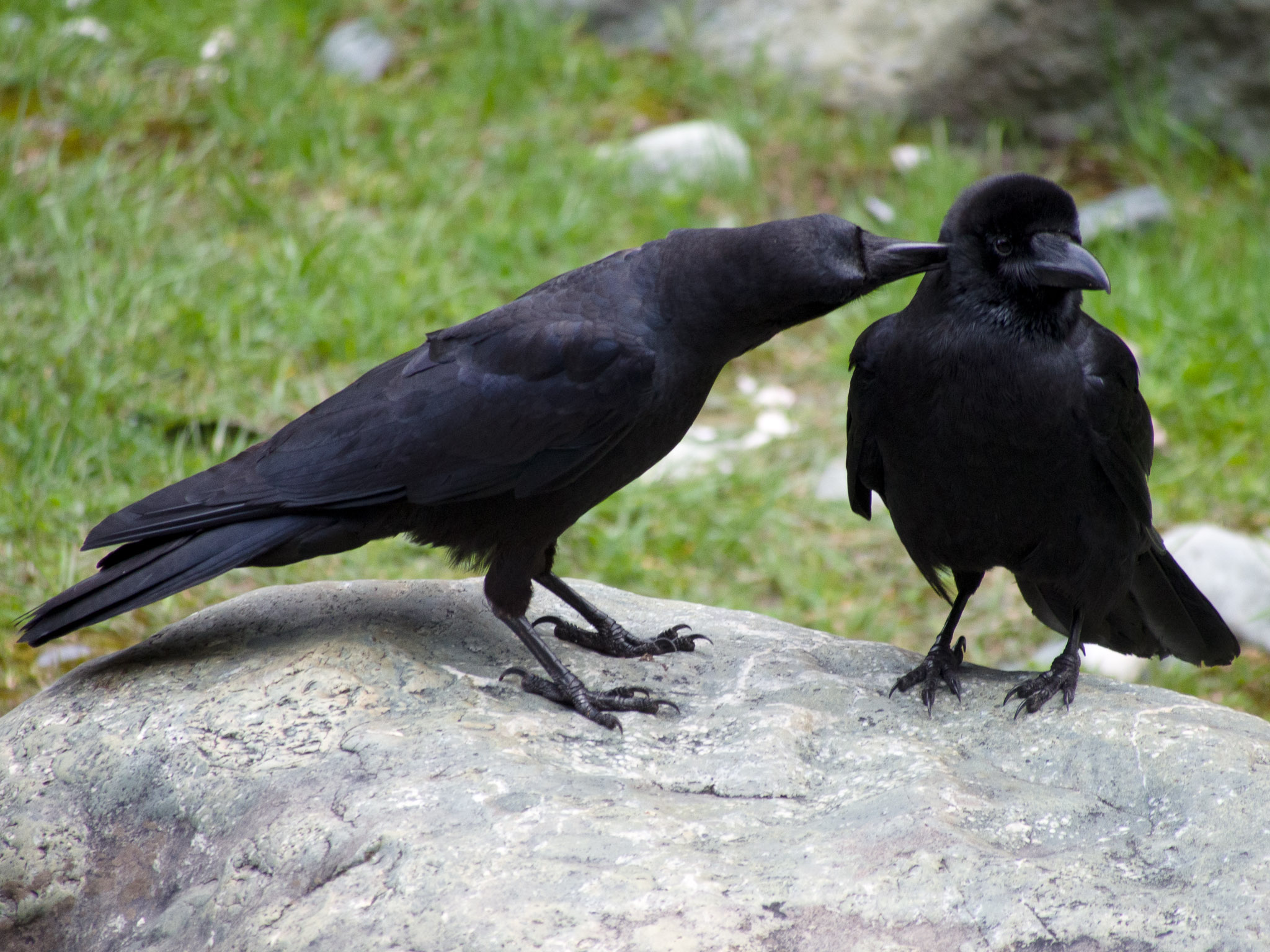 Large-billed Crows